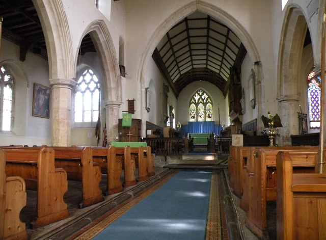 Interior of the Church of St Mary in Coddenham, Suffolk, England. A Grade I listed medieval church.